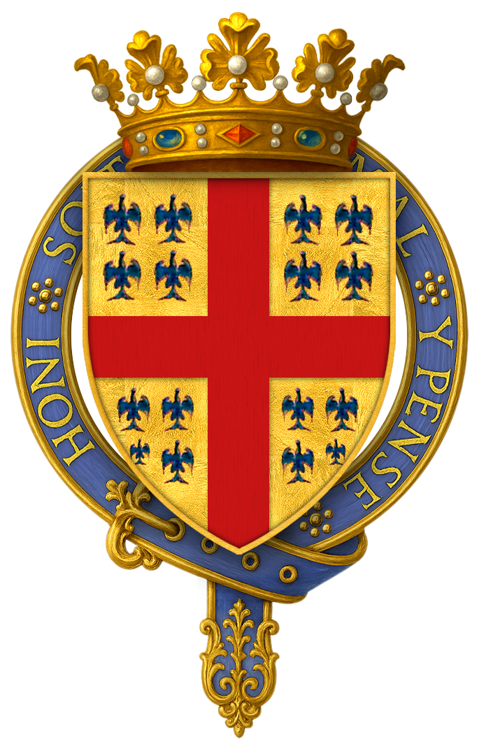 Arms of Anne de Montmorency, Duc de Montmorency, KG Montmorency's stall plate remains installed within St. George's Chapel. The arms thereon are, Or, a cross gules, between sixteen alerions azure.